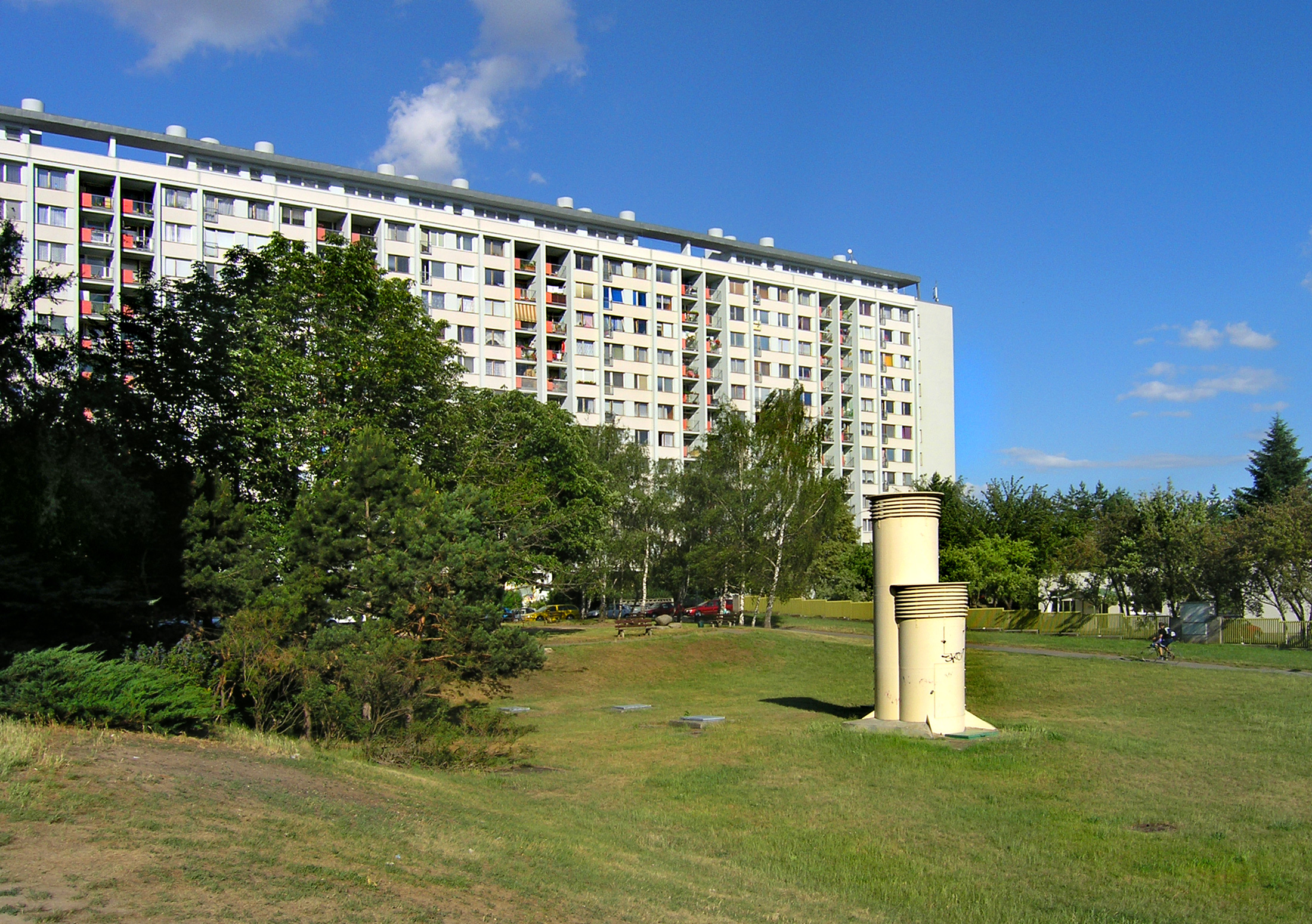 Typical housing at Ďáblice housing estate at Kobylisy , Prague